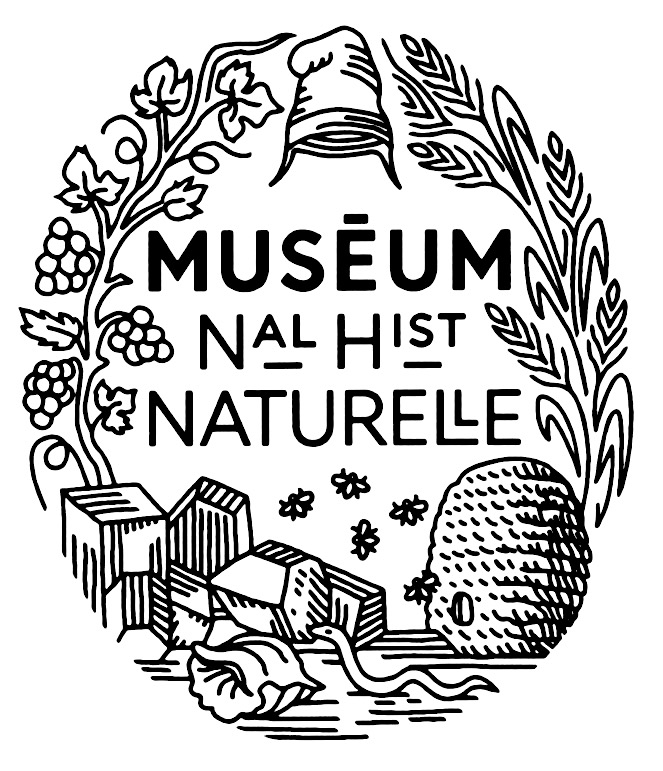 Museum national d'Histoire naturelle of France: coat of arms.